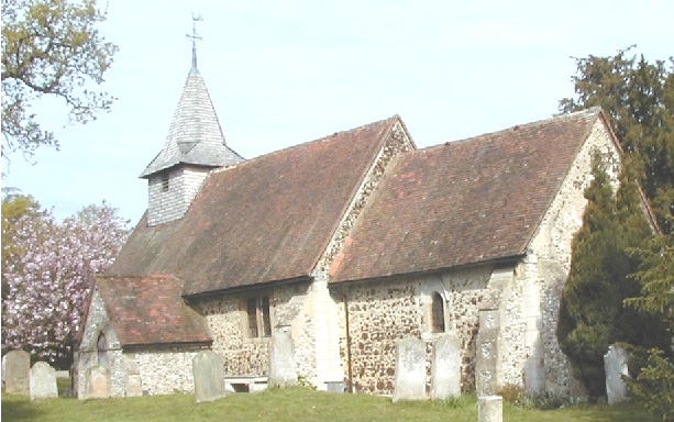 View of St. Nicholas Church, Pyrford